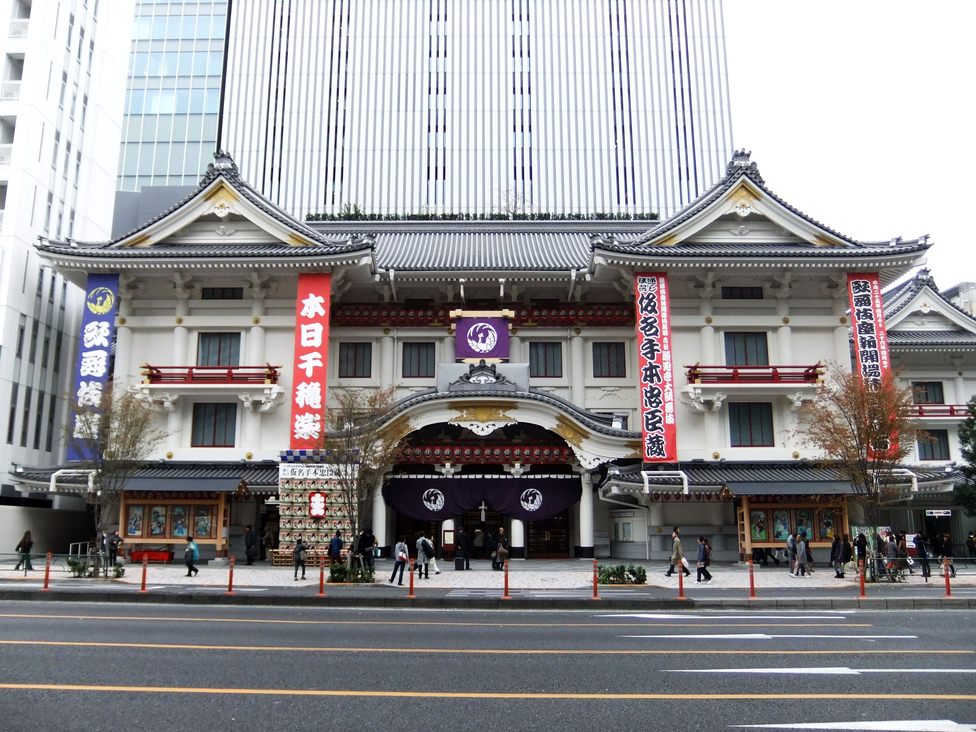 Kabuki-za theatre in Ginza, Tokyo